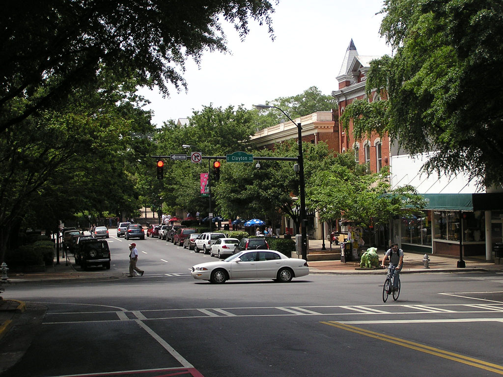 Photograph taken by Richard Chambers of a street scene in Athens. Image taken on Sunday morning, May 11, 2008. This image taken on the standing on the sidewalk of College Avenue near where it intersects with Clayton Street. You can see the arches onto North Campus of the University of Georgia in the middle of the background. You can also see one of the Bulldog statues that were set up around downtown at several locations. The university sports teams such as football and basketball are known as the Georgia Bulldogs.